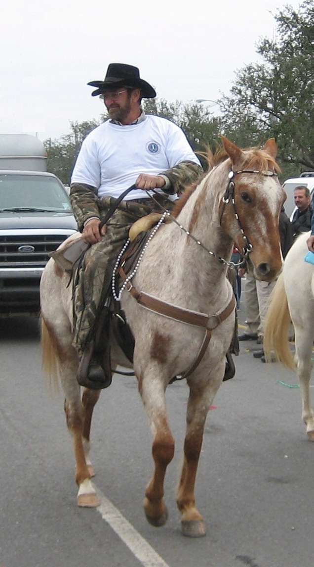 Horse and rider, Knights of Nemesis parade, Chalmette, 2006